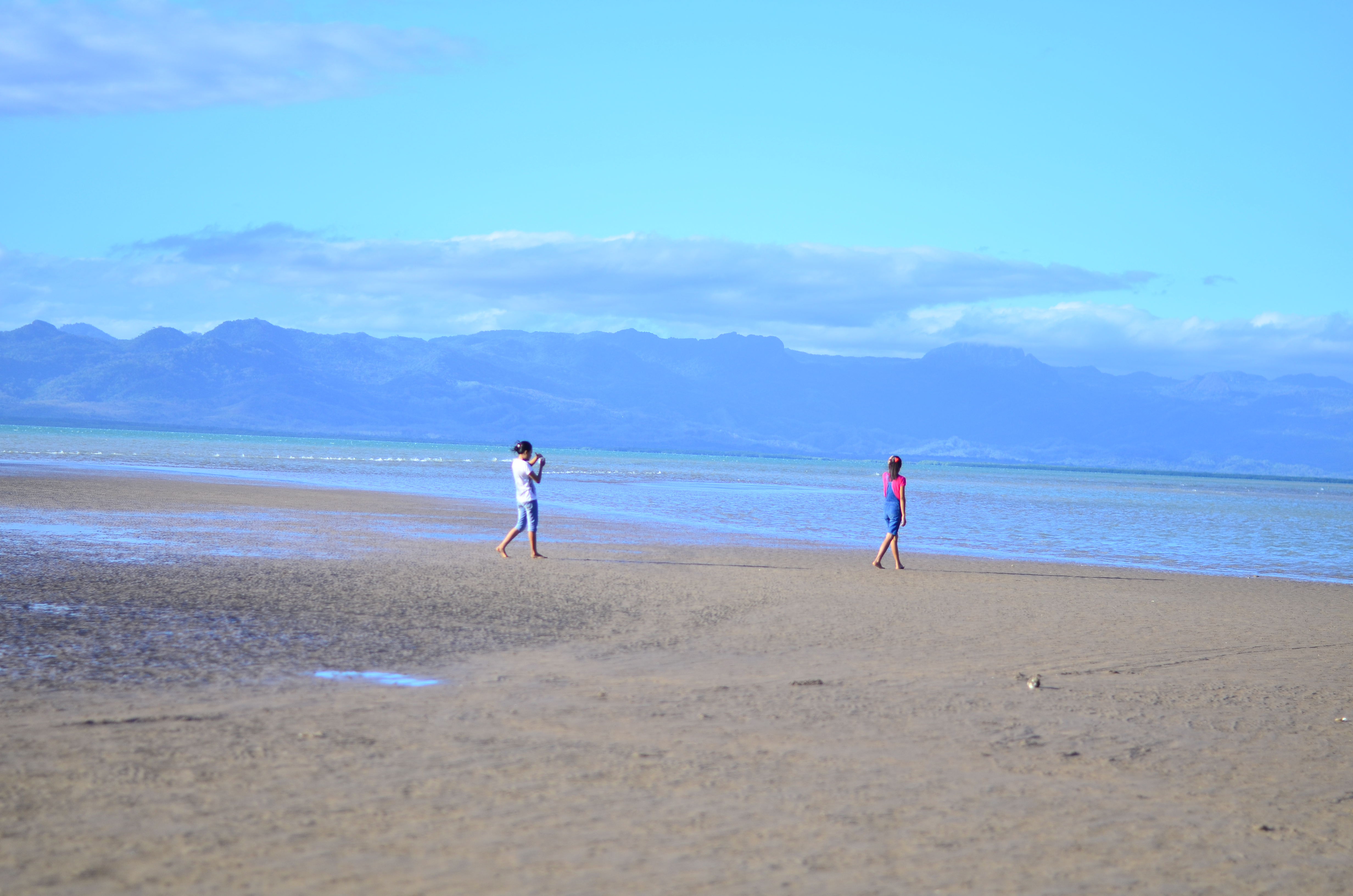 Pantai panmuti terletak di Noelbaki Kab.Kupang Nusa Tenggara Timur